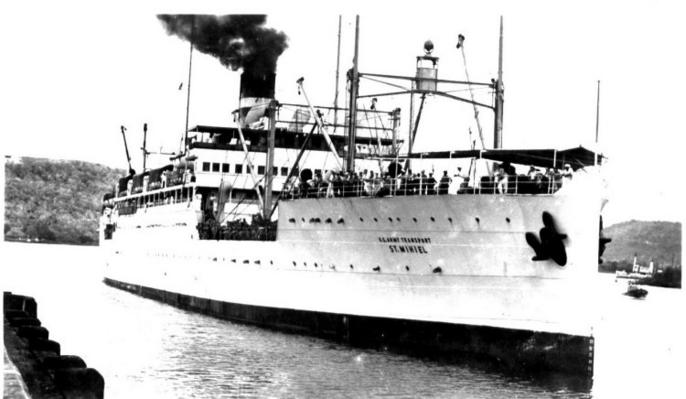 USAT St. Mihiel (later USS St. Mihiel (AP-32), seen here prior to WWII.